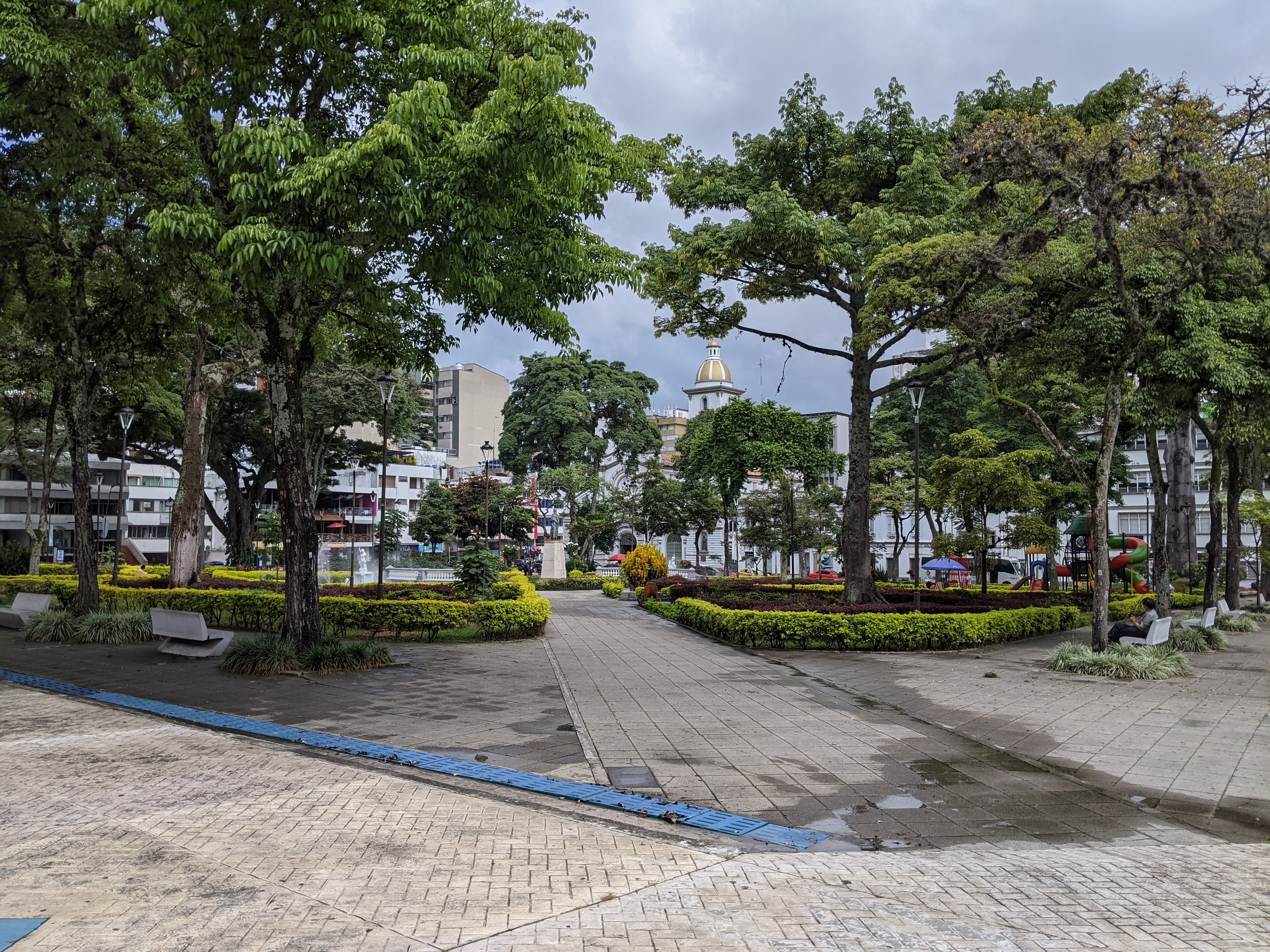 The main park in Ibagué, named after Simón Bolívar.